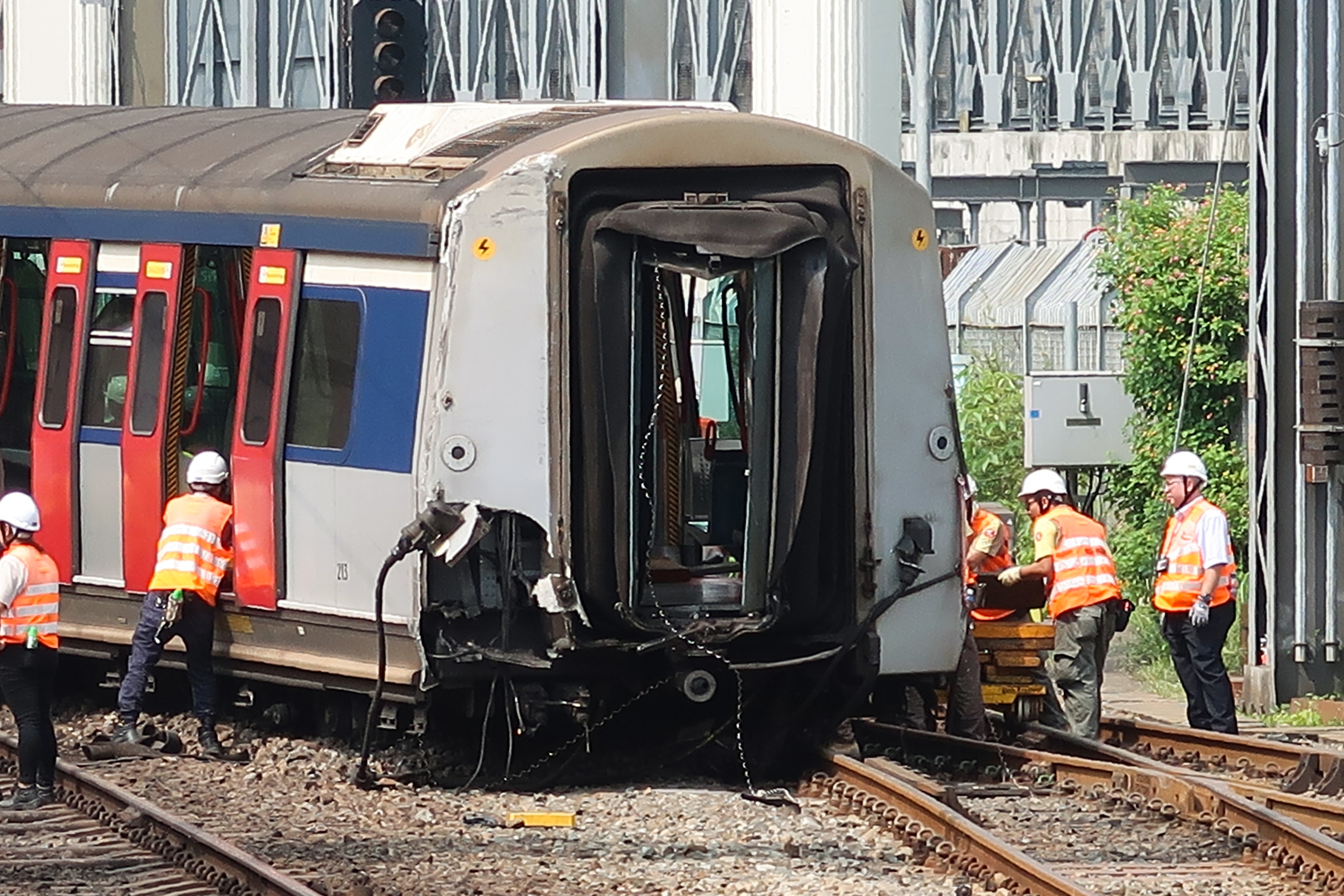 A train has derailed on the East Rail line, near Hung Hom Station on 17/9/2019